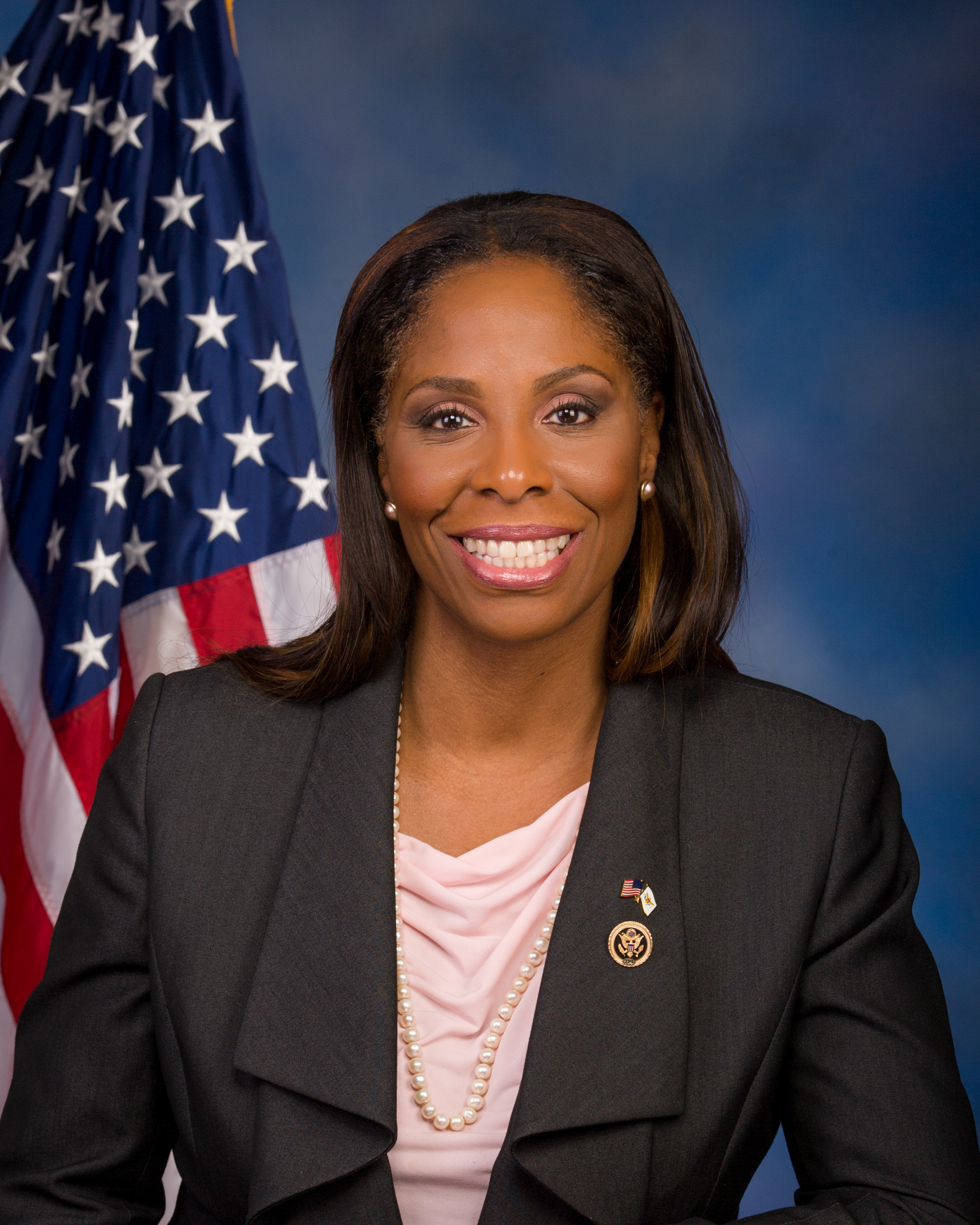 Virgin Islands Delegate to Congress Stacey E. Plaskett